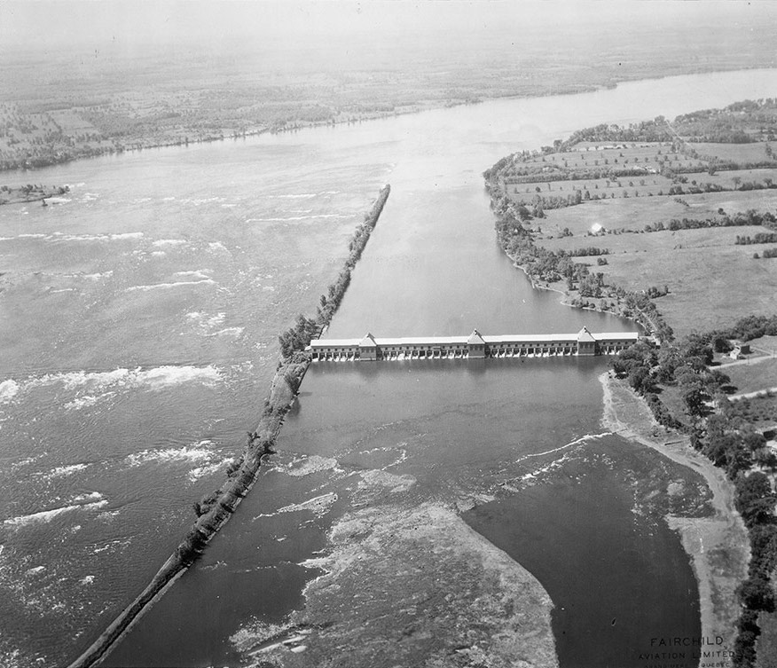 The Lachine hydroelectric station. Inaugurated on September 25, 1897, it is the first hydroelectric station to serve the Montreal, Quebec area. Source : Hydro-Québec Archives, F9/700771.